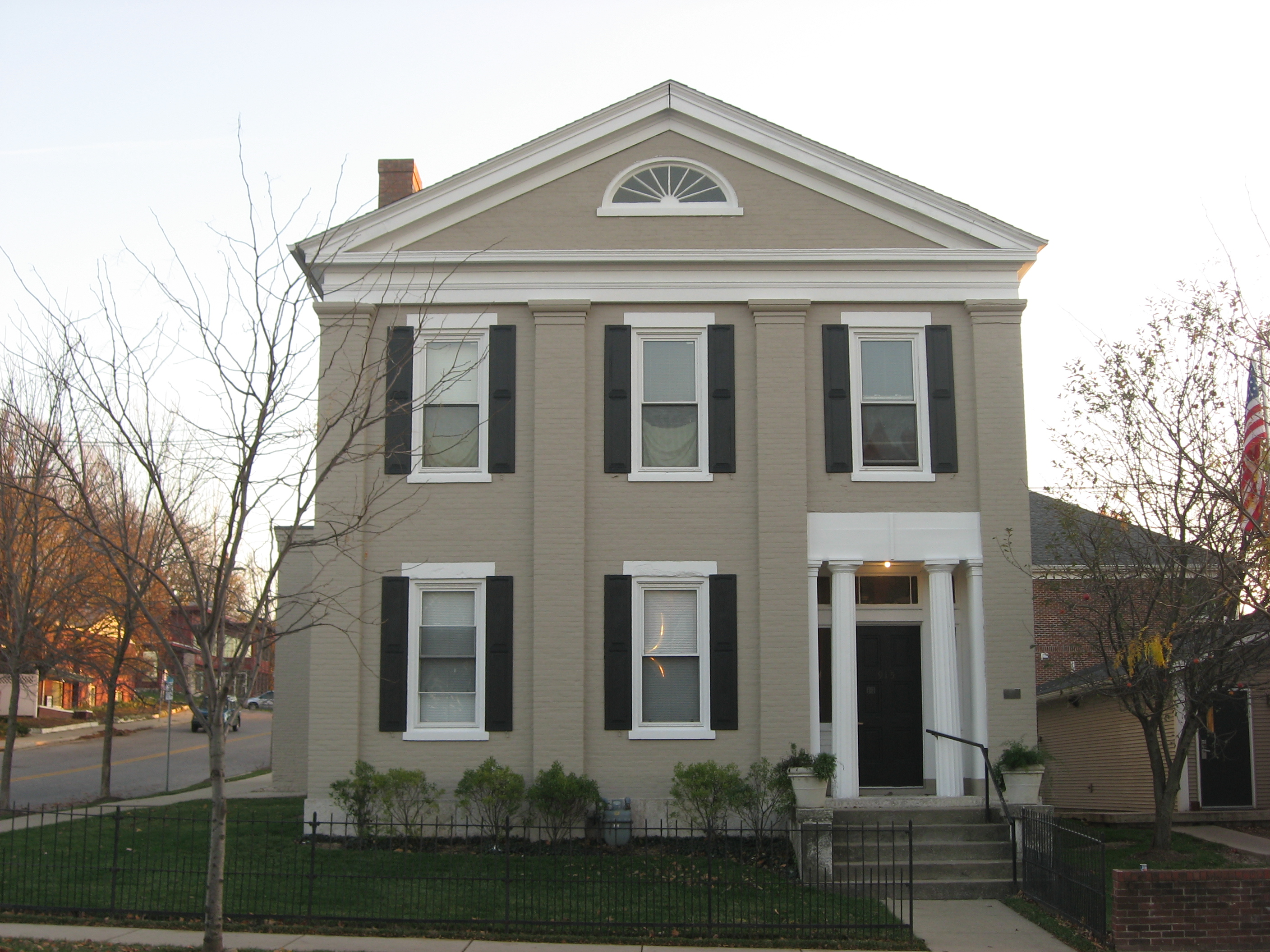 Front of the William Potter House, located at 915 Columbia Street in Lafayette, Indiana, United States. Built in 1855, it is listed on the National Register of Historic Places.